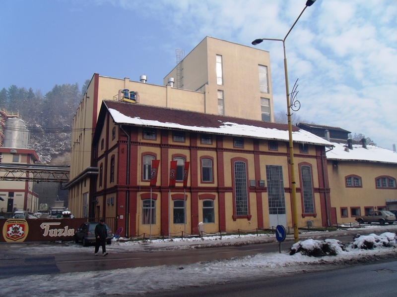 Tuzla Brewery building since 1884